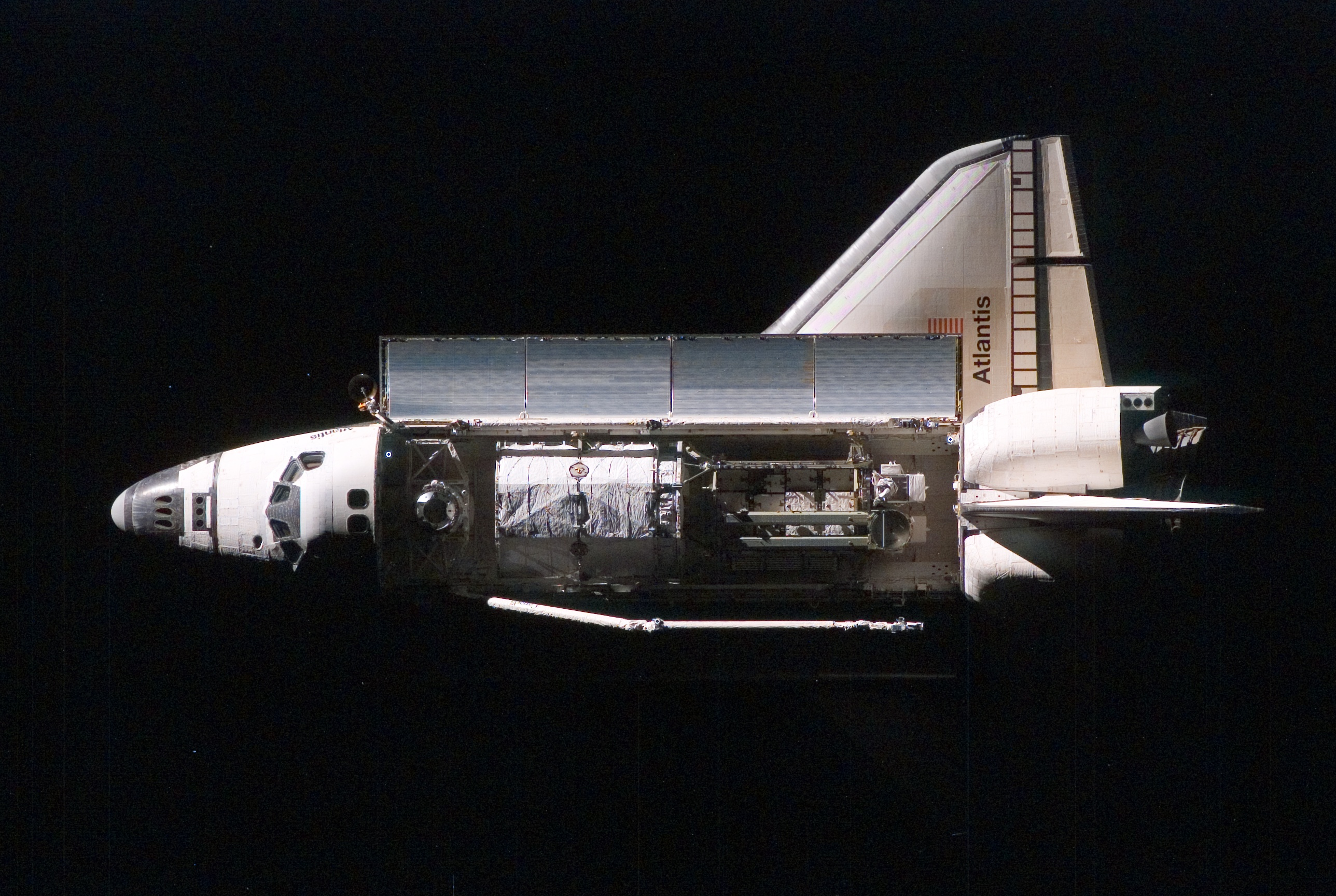 ISS013-E-79892 (11 Sept. 2006) --- This overhead image of the Space Shuttle Atlantis, recorded by a crewmember onboard the International Space Station, gives an excellent view of the hardware stowed in the cargo bay which will later be used to resume the construction of the orbital outpost.